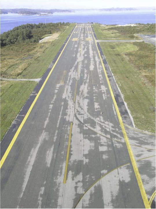 Runway of Stord Airport, Sørstokken in the aftermath of Atlantic Airways Flight 670.